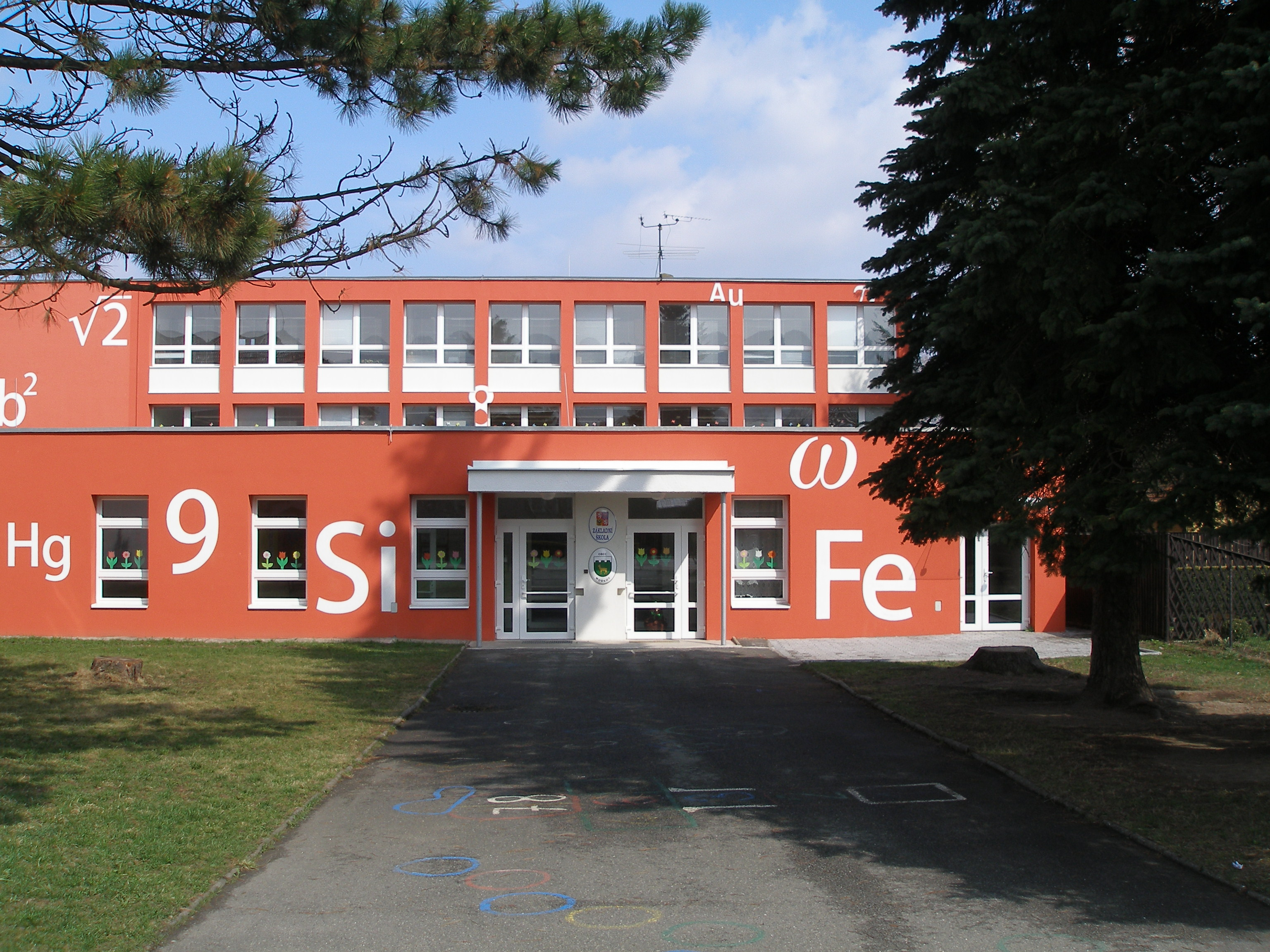 Primary school in Mořkov (enter of house).